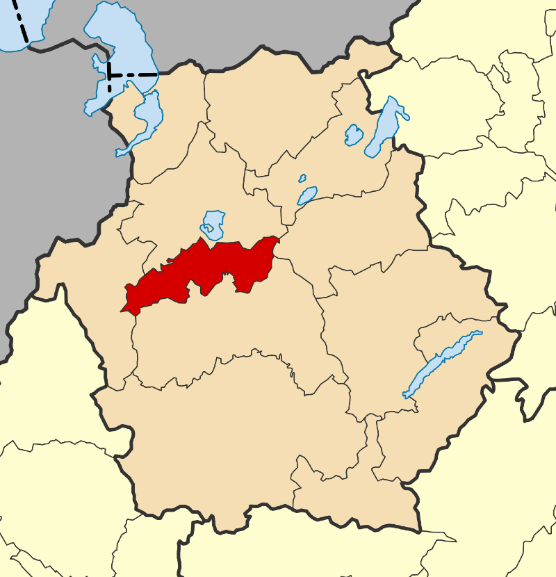 Locator map for Orestida municipality in Greek region West Macedonia (2011)